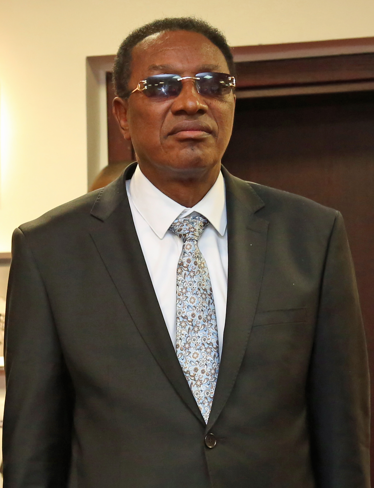 Bruno Tshibala posing for a picture before a meeting with Jean-Pierre Lacroix